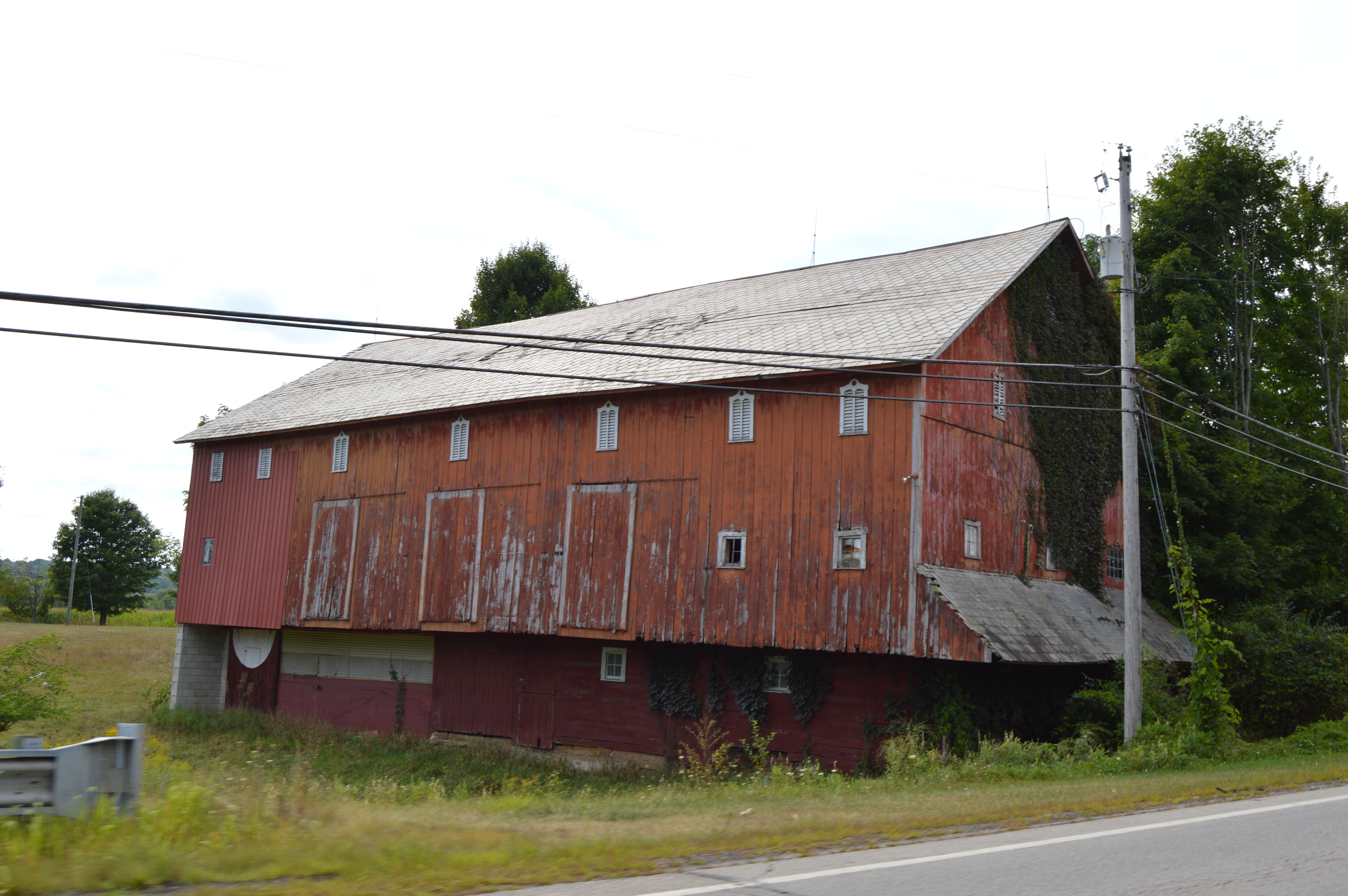 Front and southeastern side of a barn located along State Route 97 northwest of Bellville in Washington Township, Richland County, Ohio, United States.